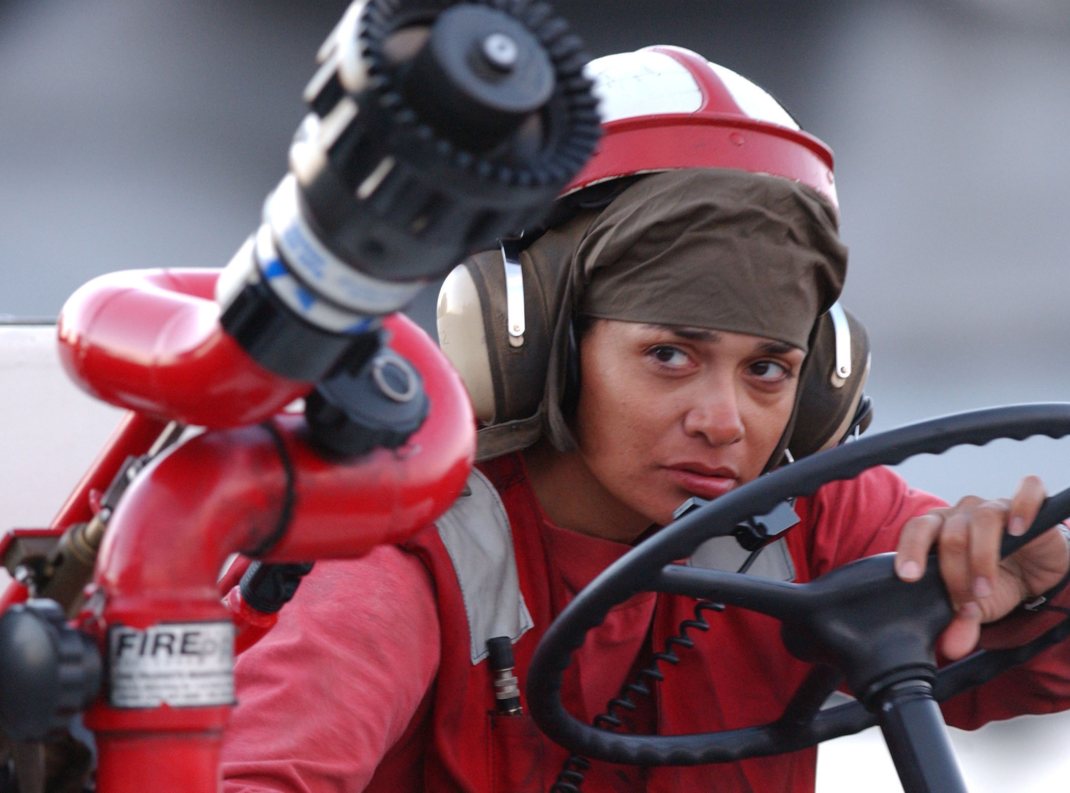 011217-N-6626D-503 At sea aboard USS Theodore Roosevelt (CVN 71) Dec. 17, 2001 -- Aviation Boatswain's Mate 3rd Class Yvonne Bailey mans the crash and salvage truck in case of an emergency on the aircraft carrier’s flight deck. USS Theodore Roosevelt is operating in support of Operation Enduring Freedom. U.S. Navy photo by Photographer’s Mate Airman Amy DelaTorres. (RELEASED)